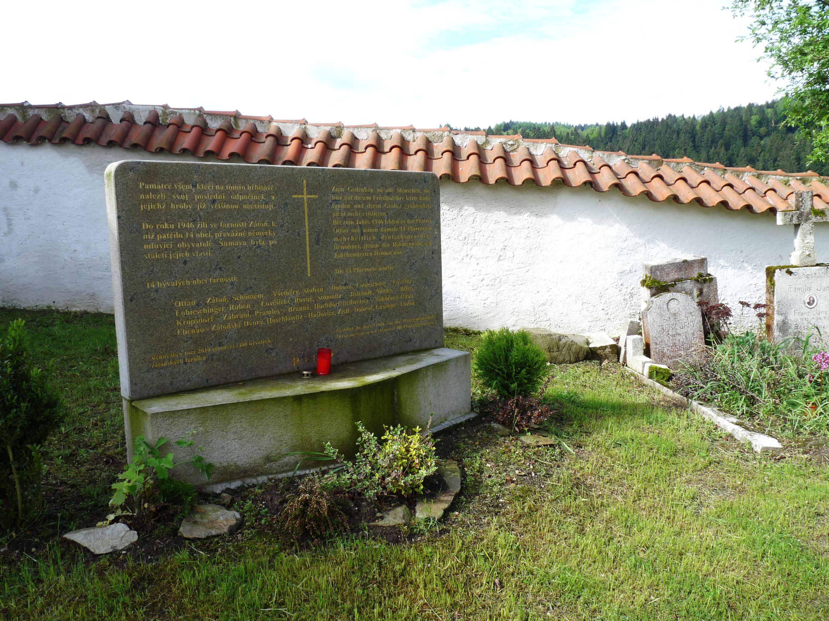 Memorial to the German former parishioners in the village of Zátoň, Český Krumlov District, South Bohemian Region, Czech Republic.